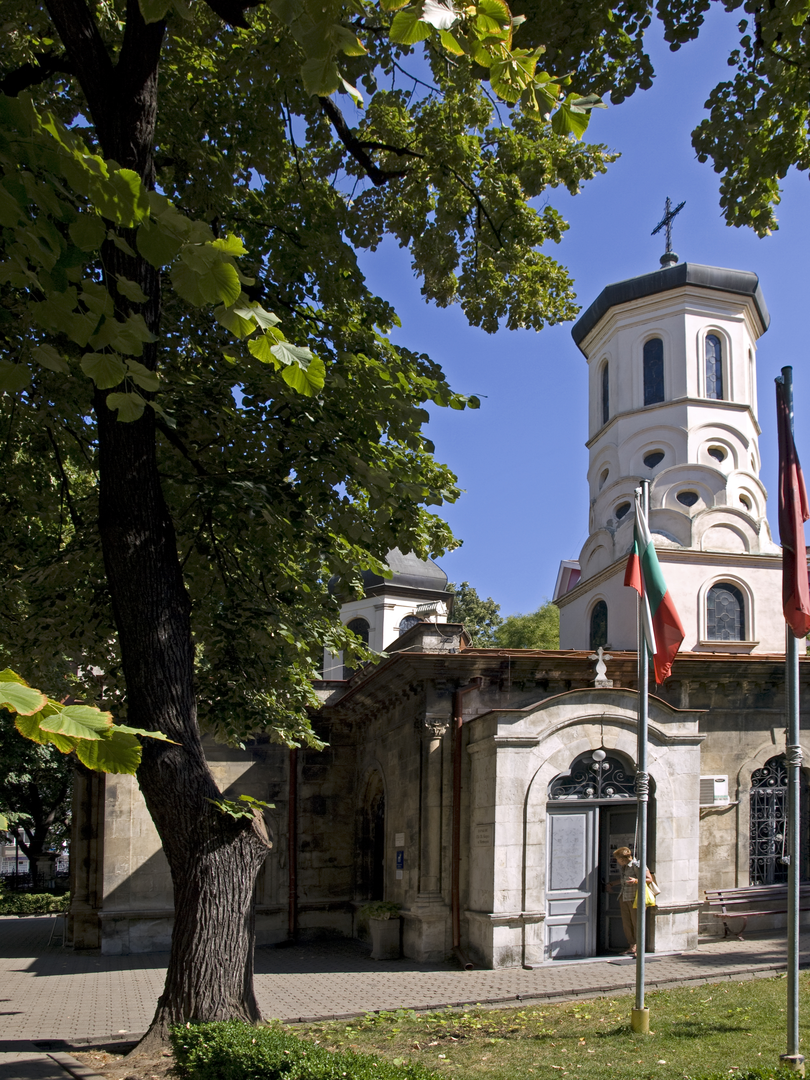 Bell-tower of the Trinity Church, Ruse